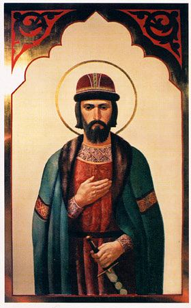 Saint Mercury of Smolensk